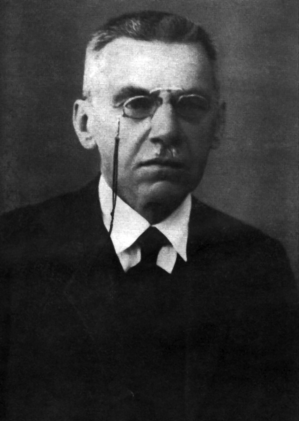 Wipper Robert Yurievich, the Russian historian